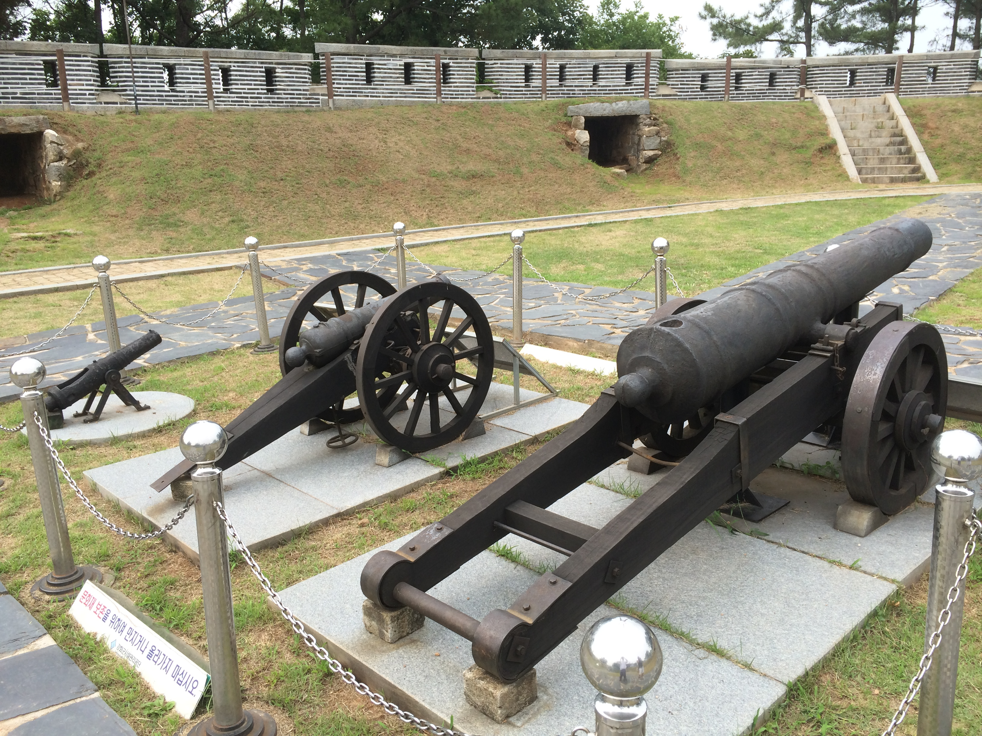 Artillery weapons in Gwangseongbo, a fortress of Ganghwado built at Joseon Dynasty